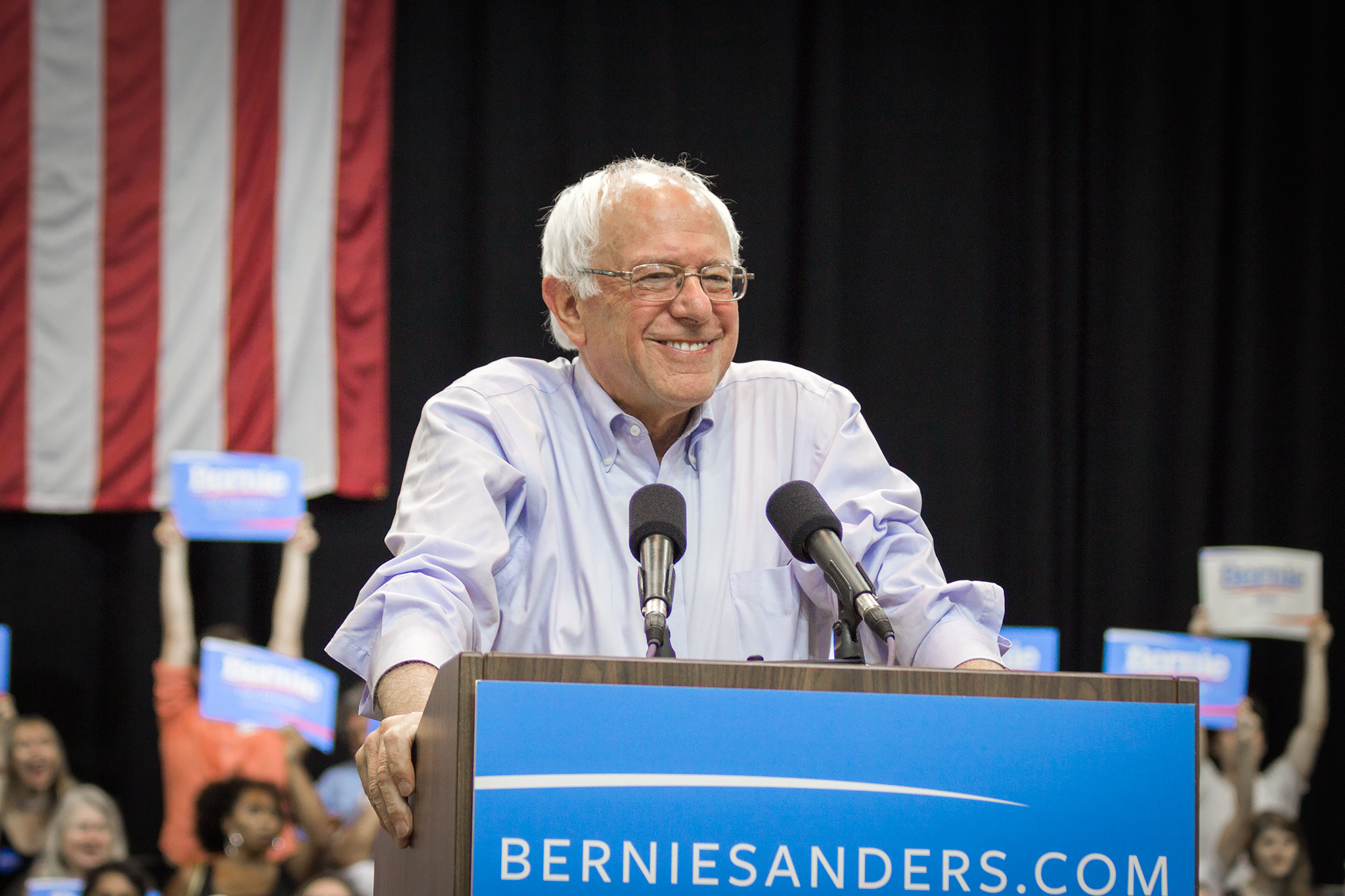 Bernie Sanders at a rally in New Orleans, Louisiana, July 26, 2015